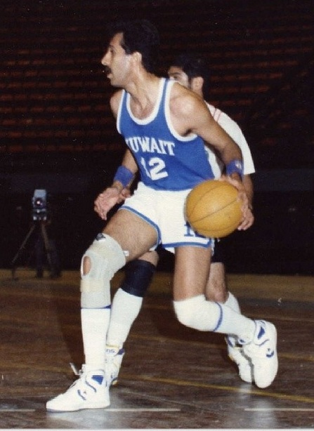 Faisal Buressli Wearing Kuwait NT jersey